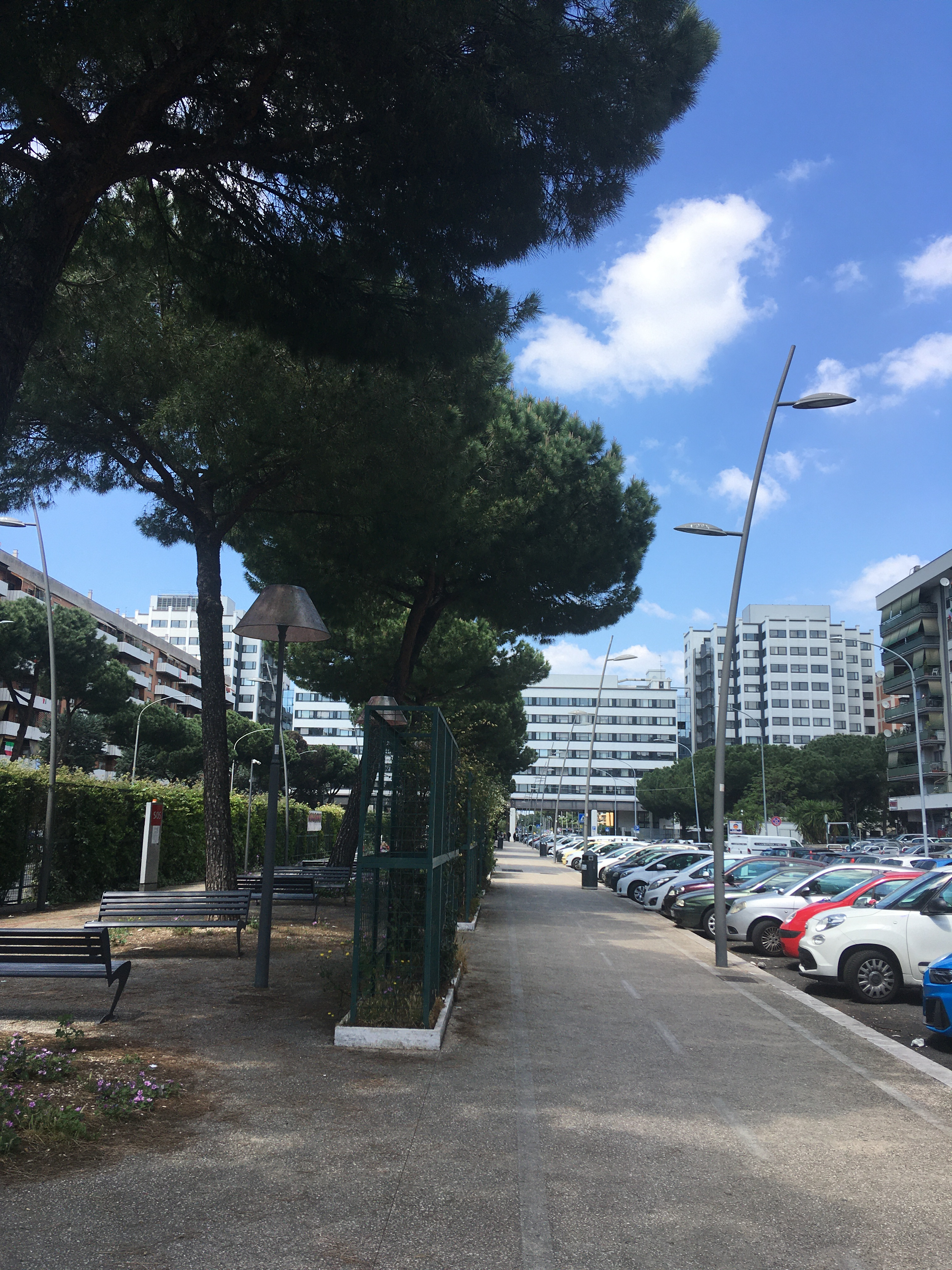 Rome, Italy - Cinecittà est - Viale Ciamarra